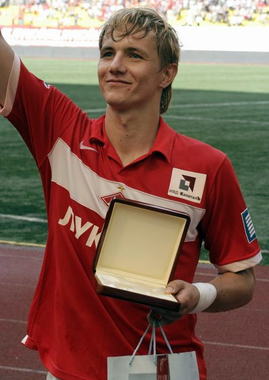 Roman Pavluchenko